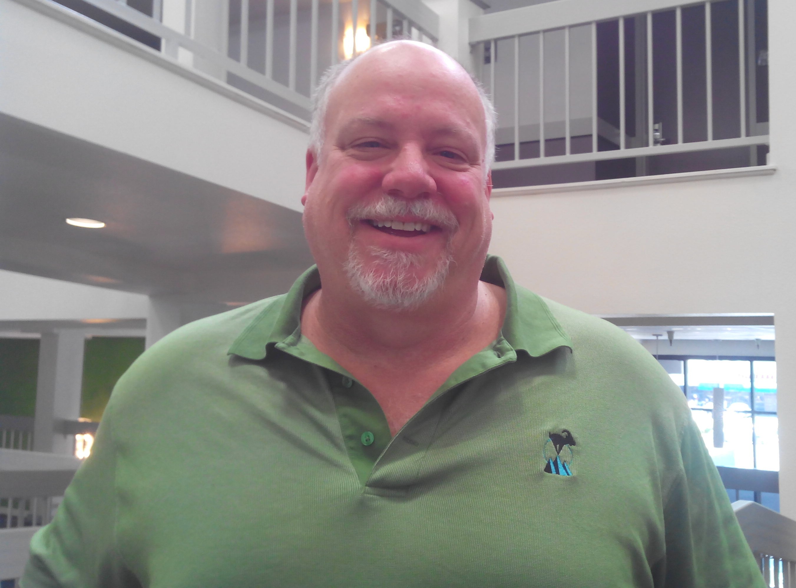 Mike Cohn, during a Scrum Master training, Domain Hotel, Sunnyvale CA